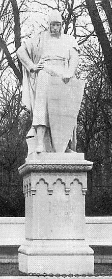 Statue in the former Siegesallee in Berlin commemorating the Coregent Margrave of Brandenburg Johann II (ca. 1237–1281), son of margrave Johann I. Sculptor: Reinhold Felderhoff. Statue unveiled on 14 November 1900. While the inclusion in the Siegesallee of the last Ascanian ruler Henry II (the Child), who was of virtually no importance for the history of Brandenburg, was controversial and ultimately based solely on the need to maintain symmetry, with 16 sculptural groups on each side of the monumental boulevard, we have no information about the considerations that led to the inclusion of the Coregent Johann II, who was likewise rather insignificant. The sculptor Felderhoff had a free hand, since no images of the ruler were preserved. The only physical characterization of Johann II (in the chronicle of Brandenburg's rulers) described him as small in stature, energetic and powerful, but this could not be taken into consideration, because the statues were required to have a uniform height. Felderhoff broke with the prevailing pattern by virtue of eschewing the customary historicizing approach and choosing an (almost modern) flat-featured, typifying form. He was the only Siegesallee sculptor who dispensed with individualizing the figure, instead creating a prototypical warrior who gazes down with a calm, serious expression. The sculpture shows Johann II leaning on a large shield with the coat of arms of the house of Ballenstedt, since Esico von Ballenstedt is regarded as the founder of the Ascanian dynasty.